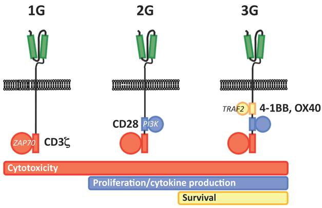 Depiction of 3 generations of CARs from